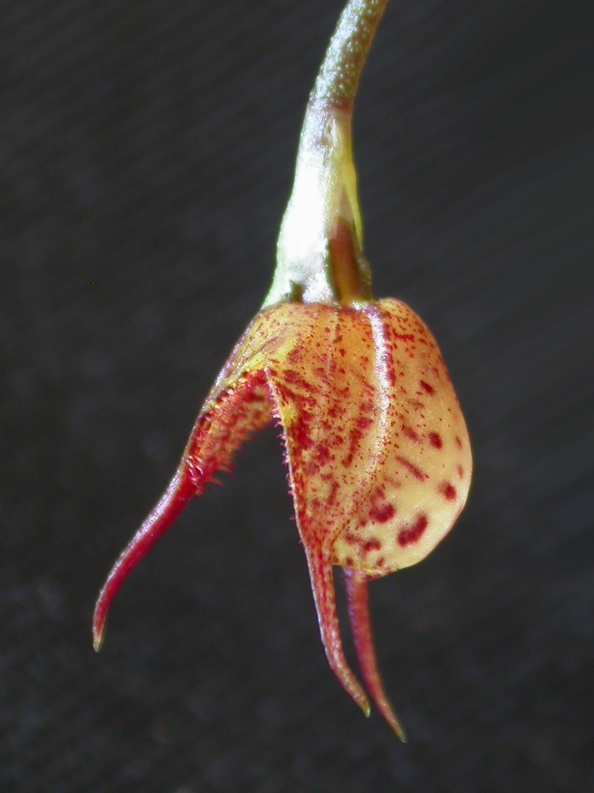 Dracula mopsus